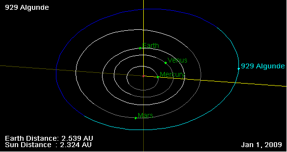 929 Algunde orbit, and his position on 01 Jan 2009 (NASA Orbit Viewer applet)